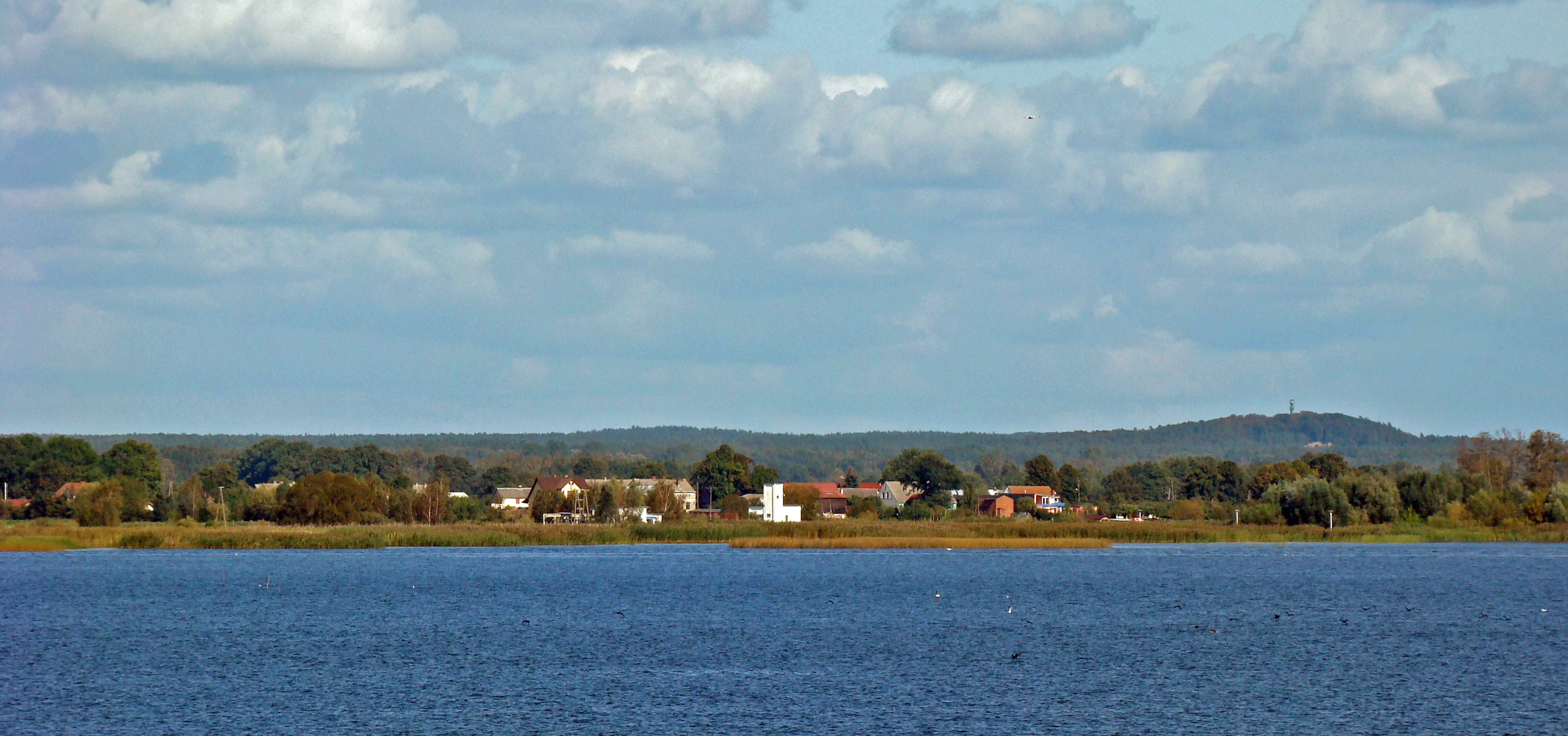 Gasierzyno on Szczecin Lagoon, West Pomeranian Voivodeship, Poland